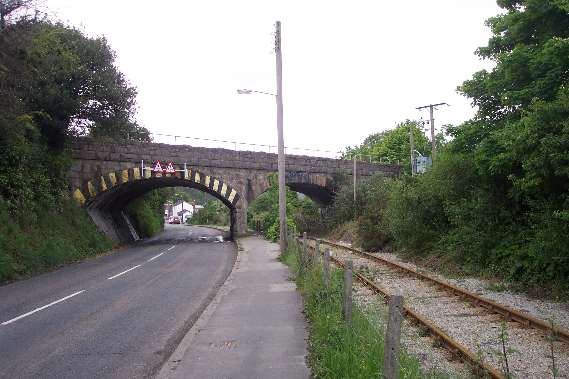 The line of the former Cornwall Minerals Railway passing under Par Viaduct and the line of the former Great Western Railway near the entrance to Par Harbour. For more information see the Wikipedia article Cornwall Minerals Railway.